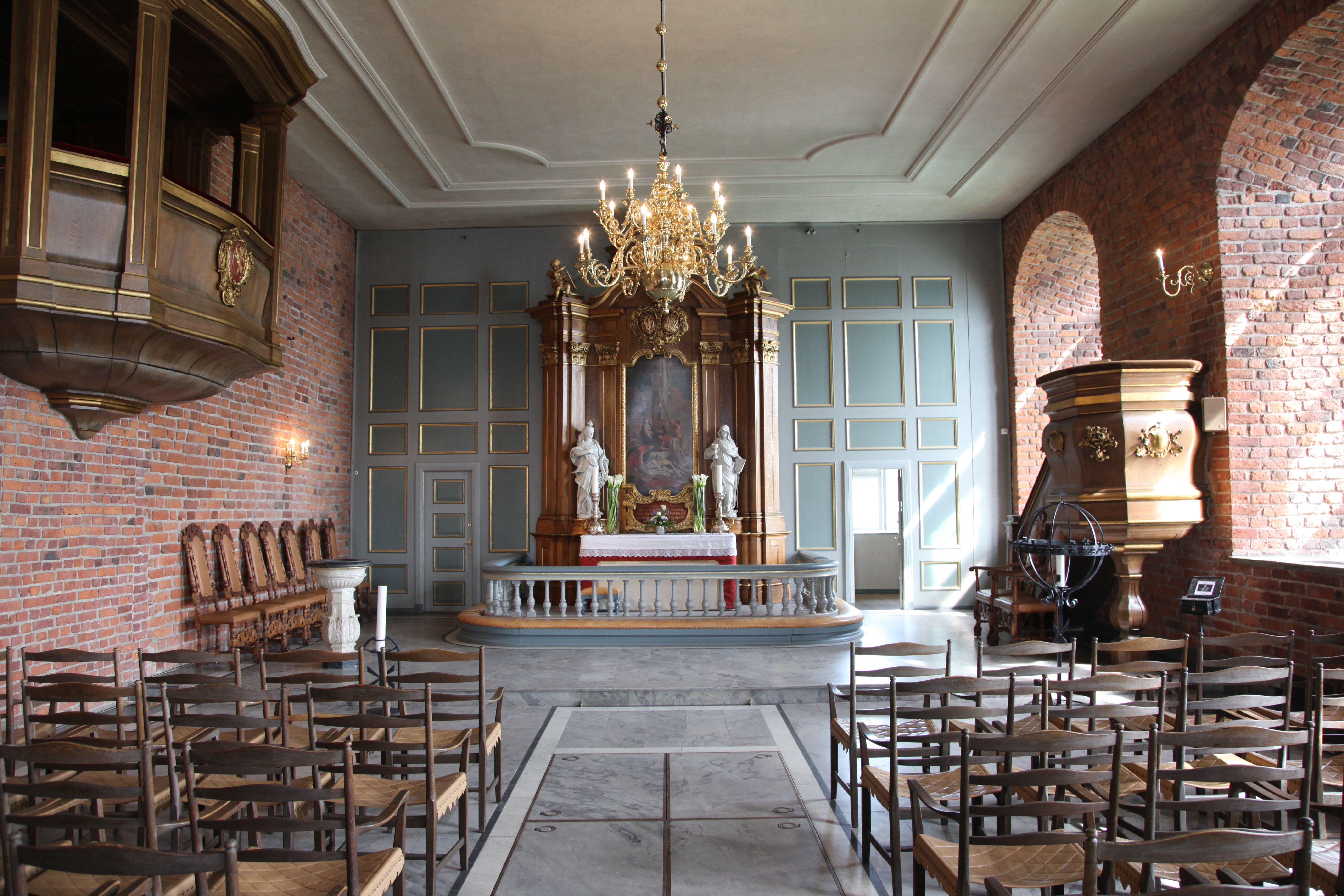 The church in Akershus Castle